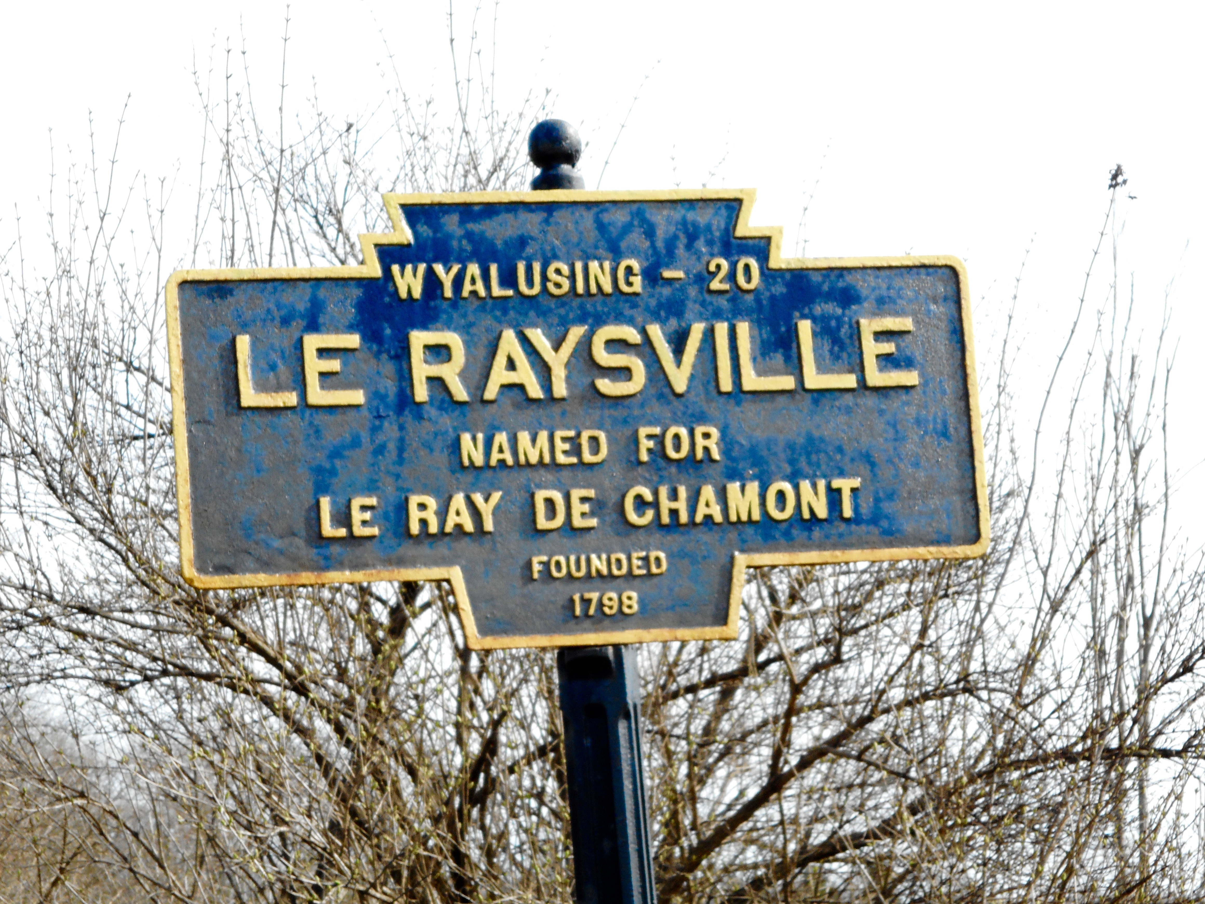 Keystone marker identifying Le Raysville, Pennsylvania as a traveler enters town from the north. Note that these cast iron or steel markers were installed roughly 1926-1940, and nobody seems to use a space in LeRaysville anymore (but I'm still confused by the capitalization)